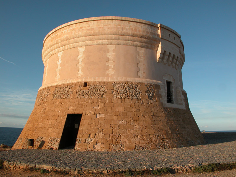 Defense tower of Fornells, Minorca.